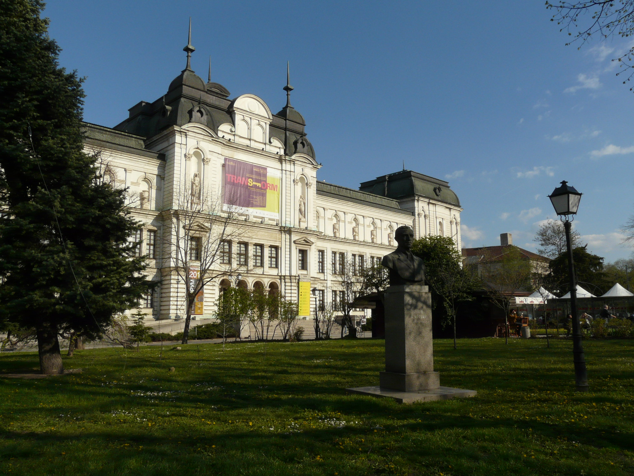 National Gallery for Foreign Art in Sofia